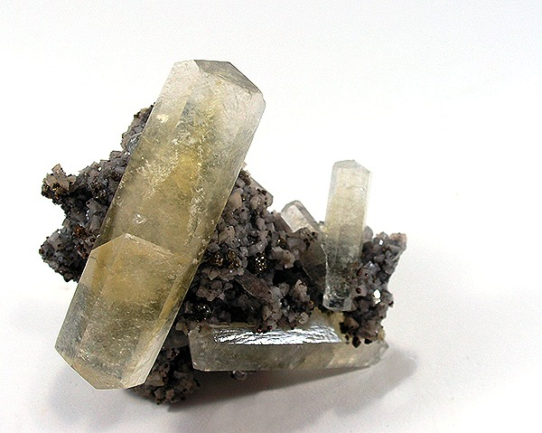 Calcite, Dolomite Locality: Sweetwater Mine (Milliken Mine; Frank R. Milliken; Blair Creek; Ozark Lead Company Mine; Adair Creek; Logan Creek), Ellington, Viburnum Trend District, Reynolds County, Missouri, USA (Locality at ) Light golden, doubly terminated, and well formed calcite crystals, are aesthetically arranged on a matrix of dolomite along with minor iridescent chalcopyrite. The largest of the calcite crystals exceed 5. 75 cm in length. SUPERB example! 6.2 x 6 x 3.3 cm